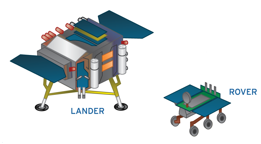 Chang’e-4, Lander and Rover, derived work of File:20180912 6258TPS-TPR-2018Q3-18-09-04-p14legacy.png